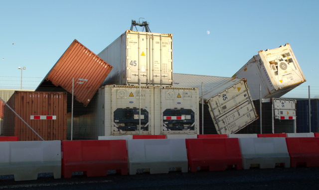 Storm damage at Greenock Ocean Terminal